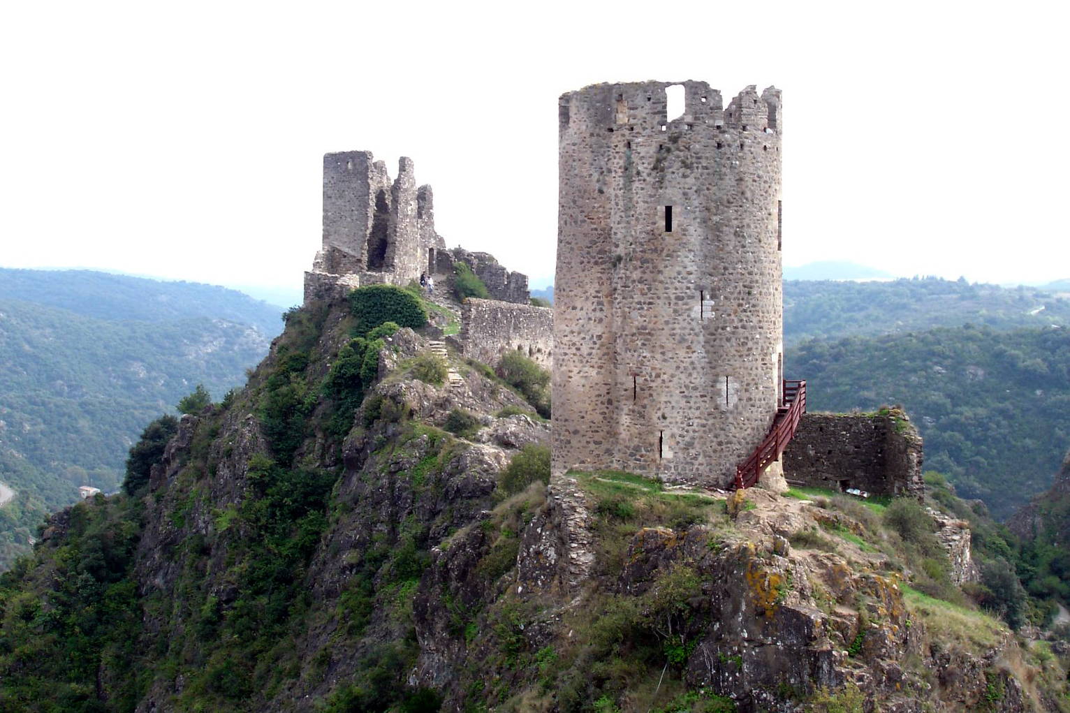 France, Aude (11), Lastours Castles